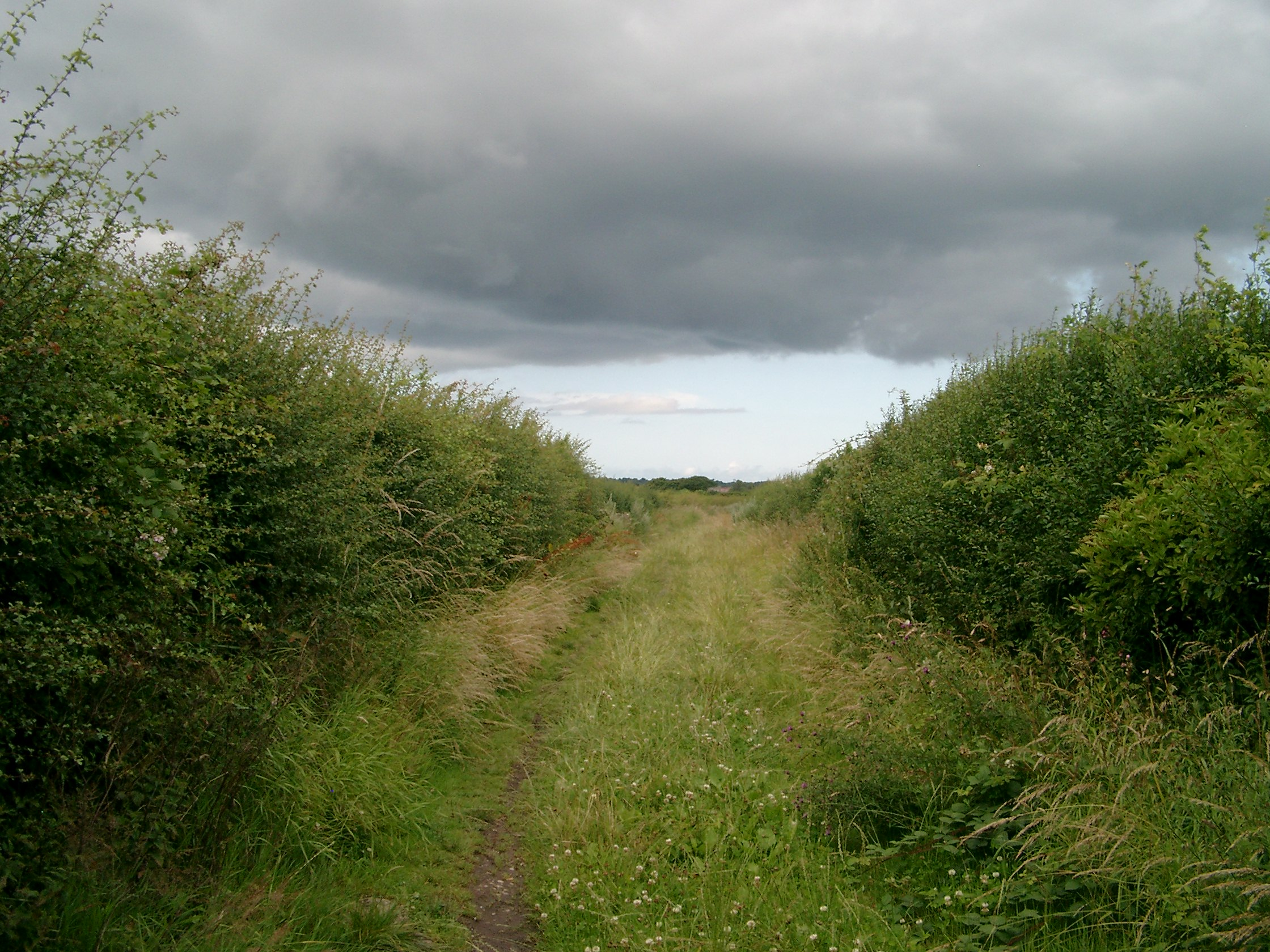 The Roman Road connects Prenton, Birkenhead to Little Storeton, Wirral, England. The road is only open to motorised traffic for short stretches at each end for residential access. Most of the route is otherwise unpaved and pedestrian access only. This photo taken from the unpaved section, overgrown with grass and often quite muddy.